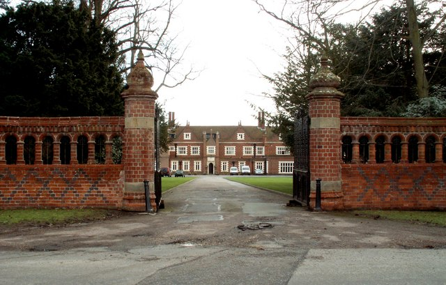 Brandeston Hall This is Framlingham College Preparatory School